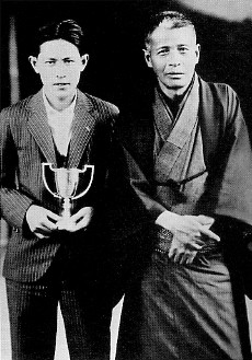 The father-son film directors Shōzō Makino (right) and Masahiro Makino